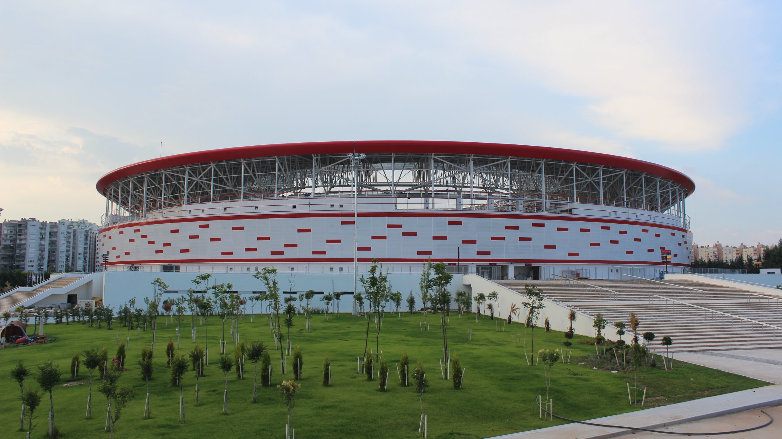 New Antalya Stadium will organize its debut event at Antalyaspor-Beşiktaş match of October 27 2015.